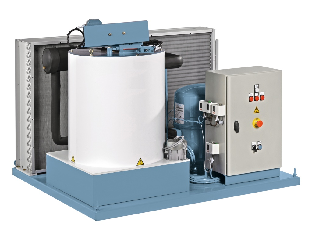 Picture of an Ice Machine